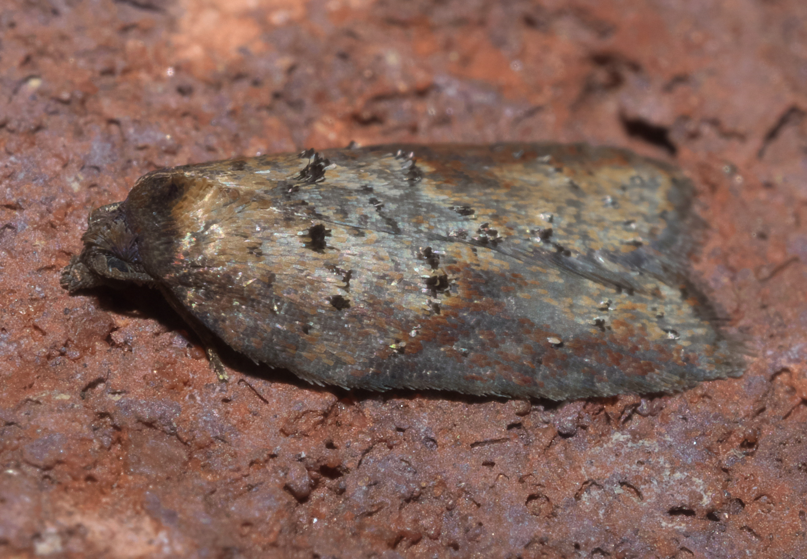 Acleris schalleriana, Schaller's acleris moth, ID Confidence: 90